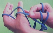 Step 3 of the figure "cup and saucer". Photographed by User:Myriamn.